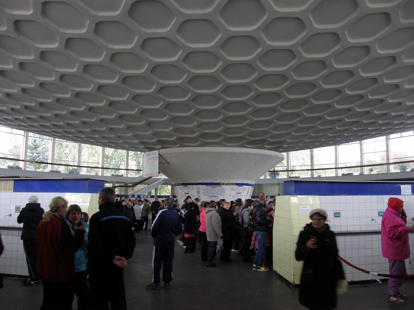 Truskavets